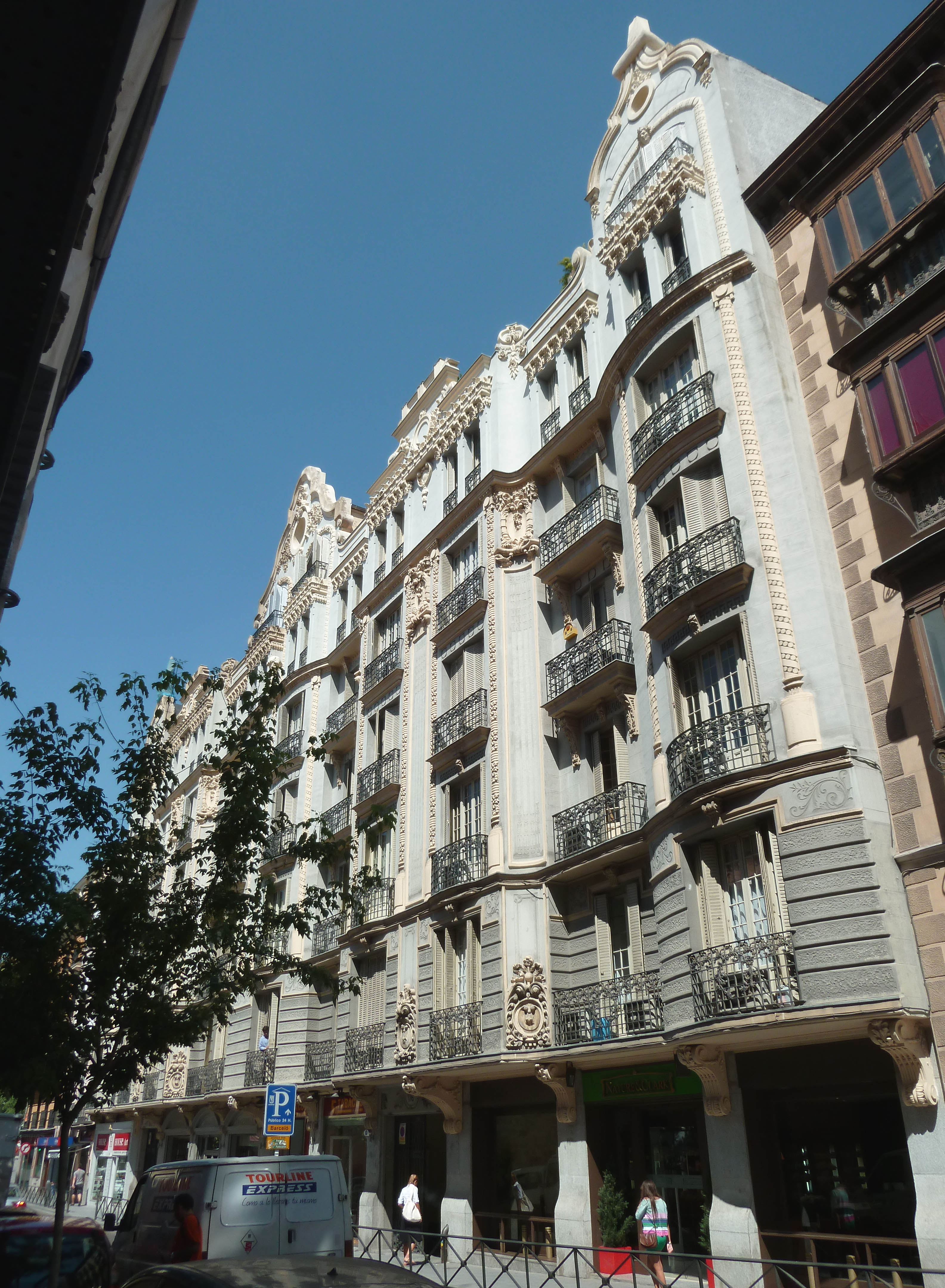 Façade of the building at 106–108 Calle de Hortaleza (street) in Madrid (Spain). It was projected in 1912 by architect Joaquín Saldaña López and built from 1912 to 1915 as two housings for the marquis of Falces and Sofía Murga.